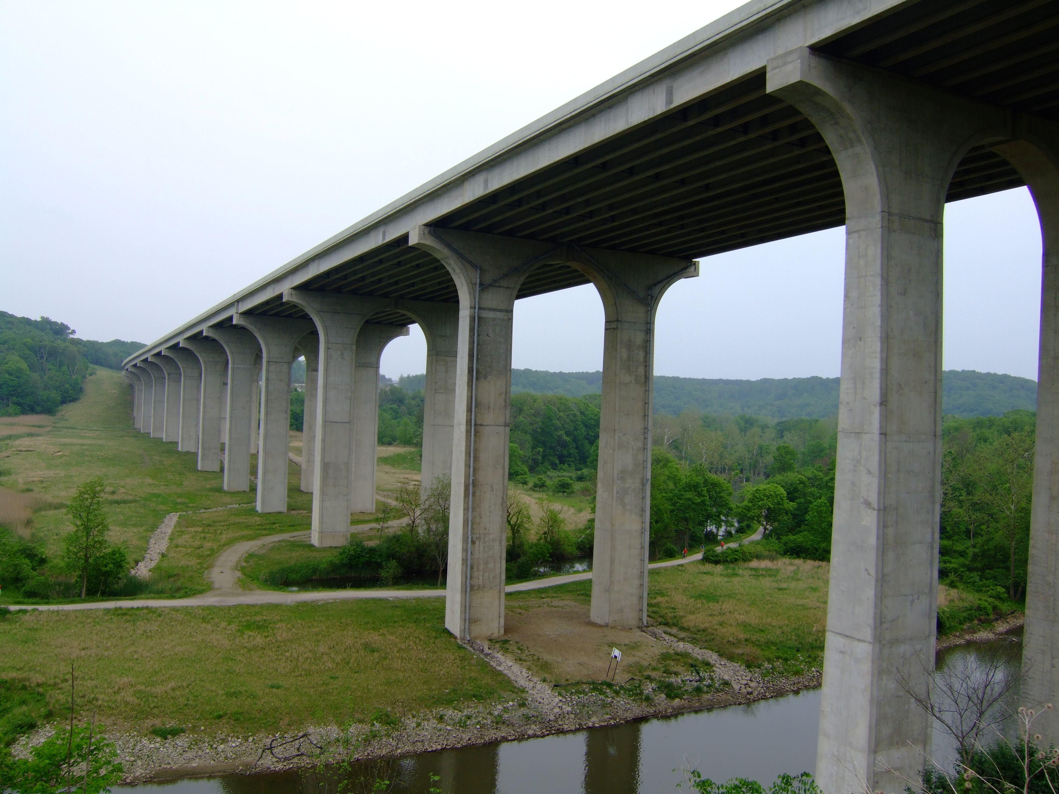 The Ohio Turnpike Bridge (Interstate 80) over the Cuyahoga River.